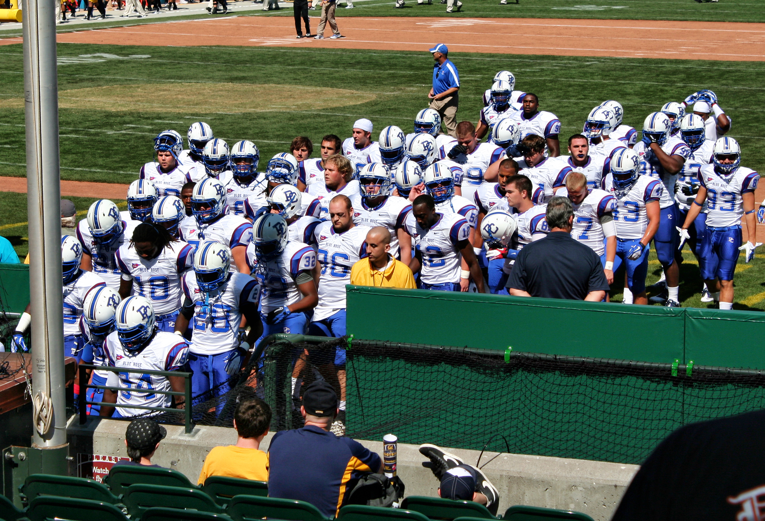 California Golden Bears vs. Presbyterian Blue Hose at AT&T Park, September 17, 2011.